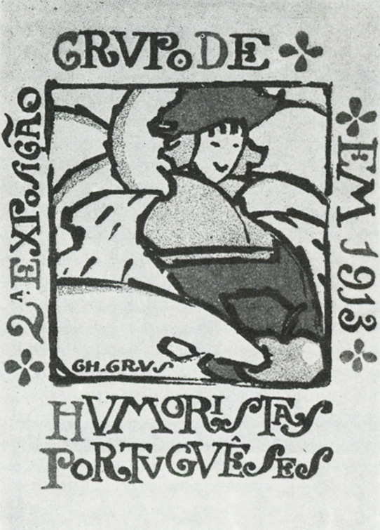 2nd Humorist's Exhibition (II Exposição dos Humorista)s, 1913